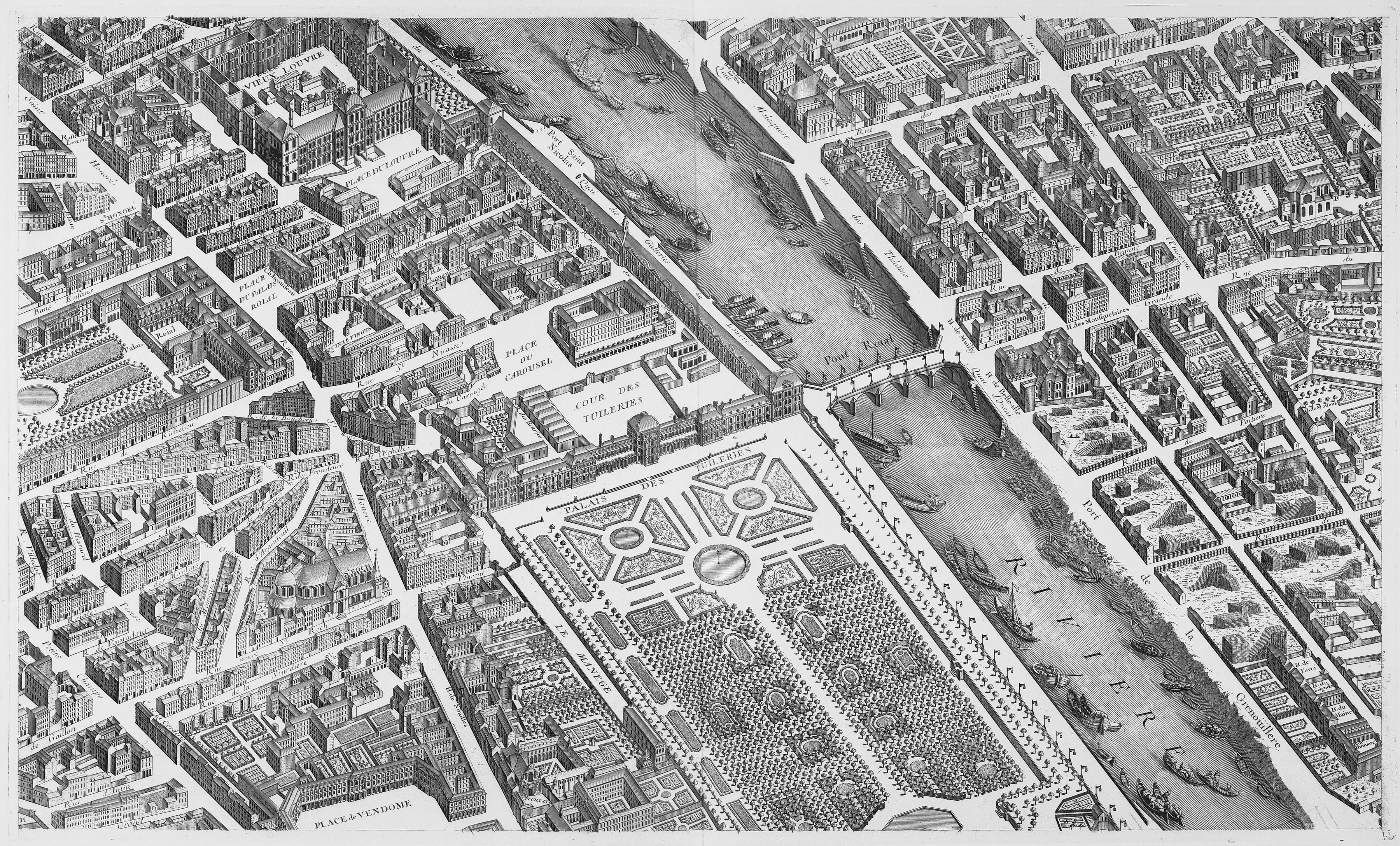 Plate 15 of the Turgot map of Paris